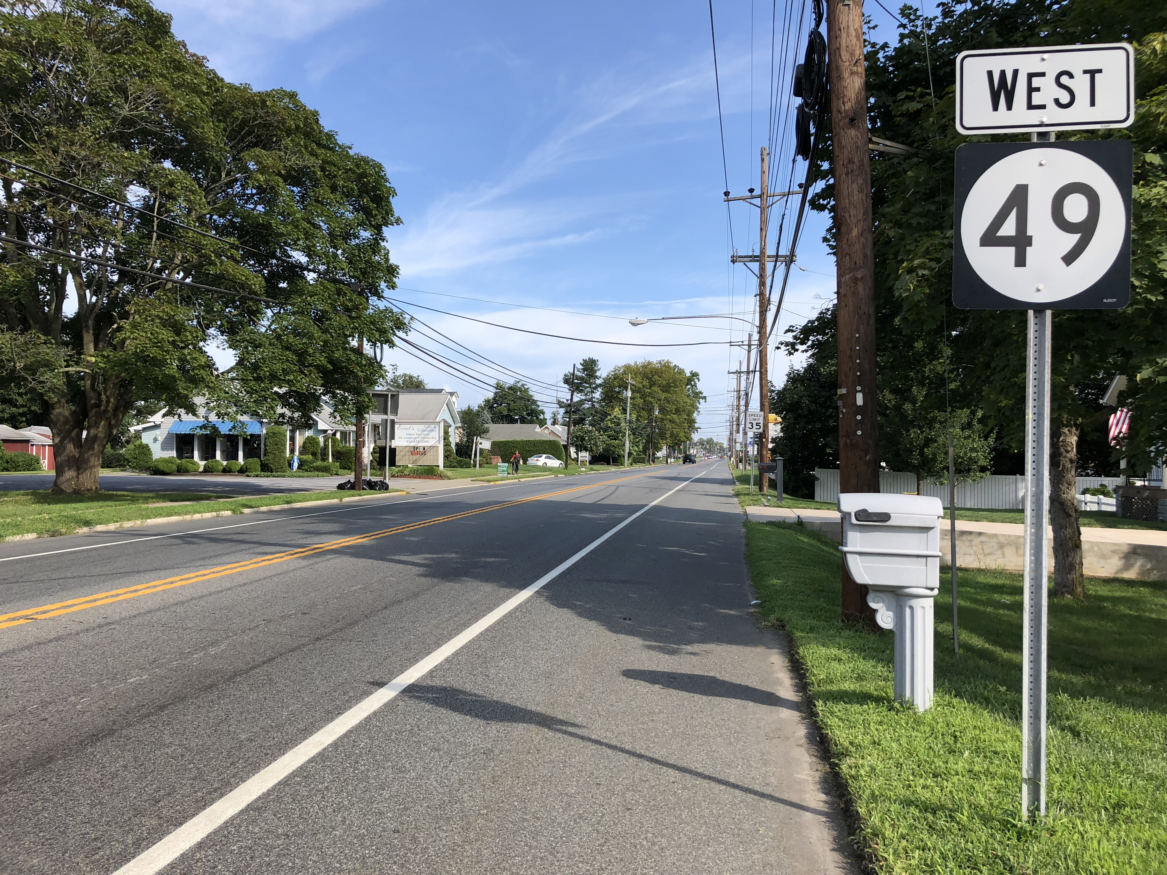 View west along New Jersey State Route 49 (South Broadway) just west Salem County Route 630 (Fort Mott Road) in Pennsville Township, Salem County, New Jersey